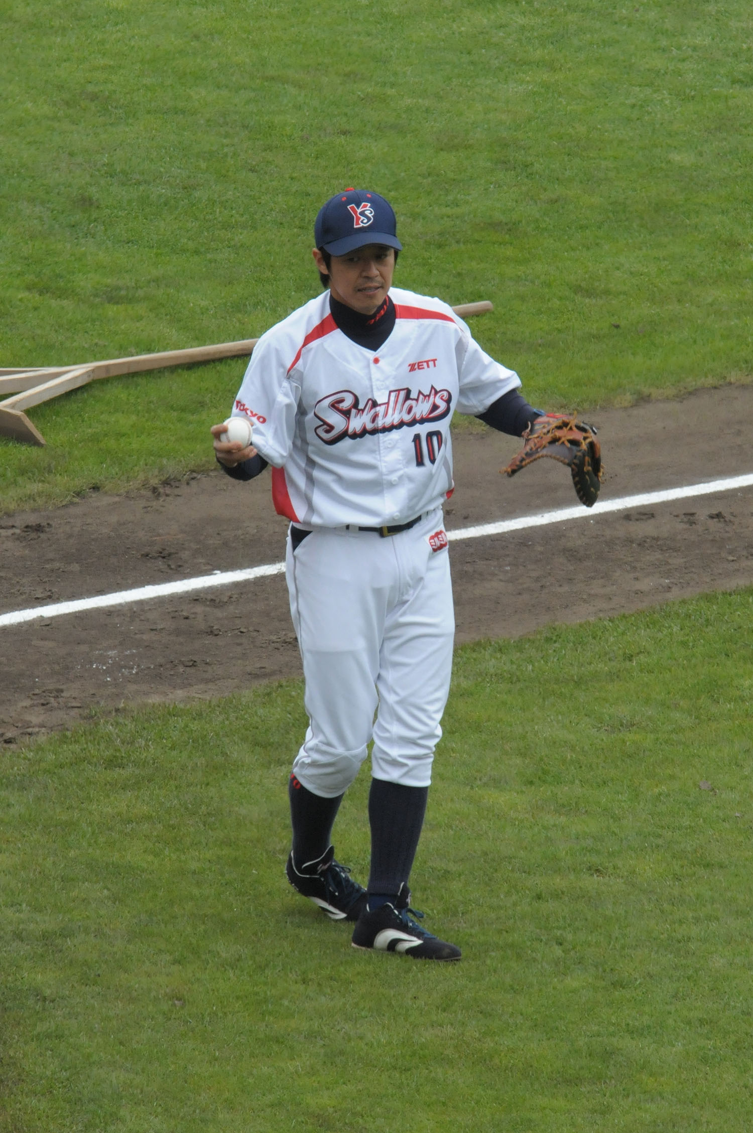 Atsushi Fujimoto, infielder of the Tokyo Yakult Swallows, at Akita Prefectural Baseball Stadium.